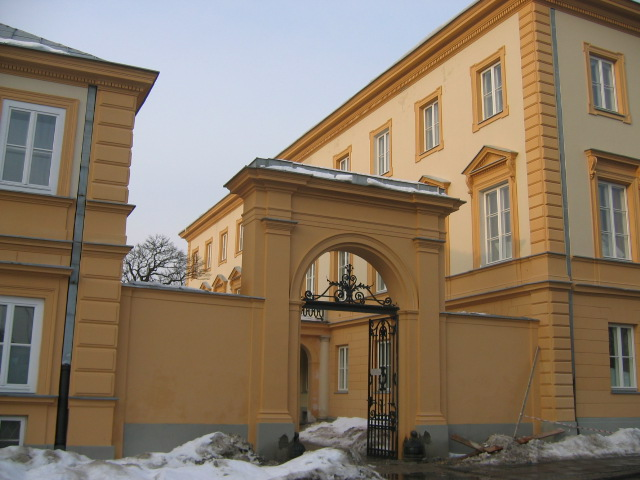 Braniccy's palace in Warsaw, New World Street 18/20